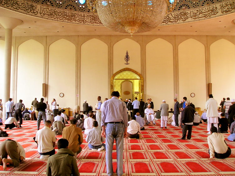 Inside london central mosque.